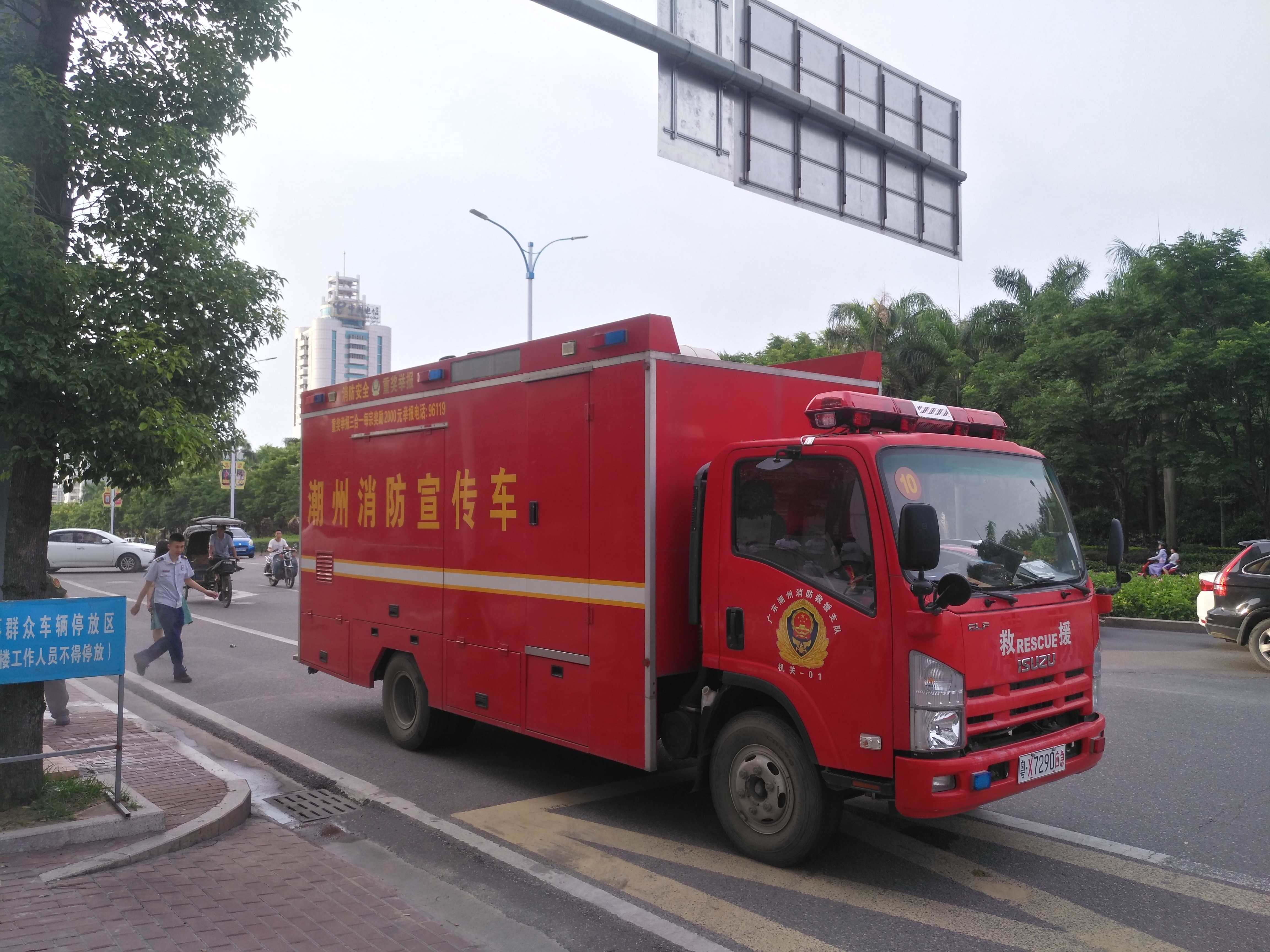 A ISUZU ELF Fire Propaganda Vchicle in Chaozhou, Guangdong, China.